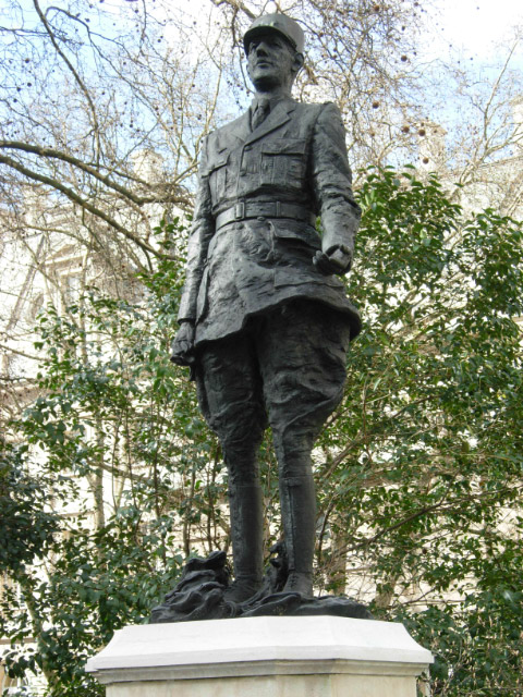 General de Gaulle This statue, by Angela Conner, was unveiled by the Queen Mother in June 1993. De Gaulle set up the headquarters of the French Free Forces in a nearby building in 1940.